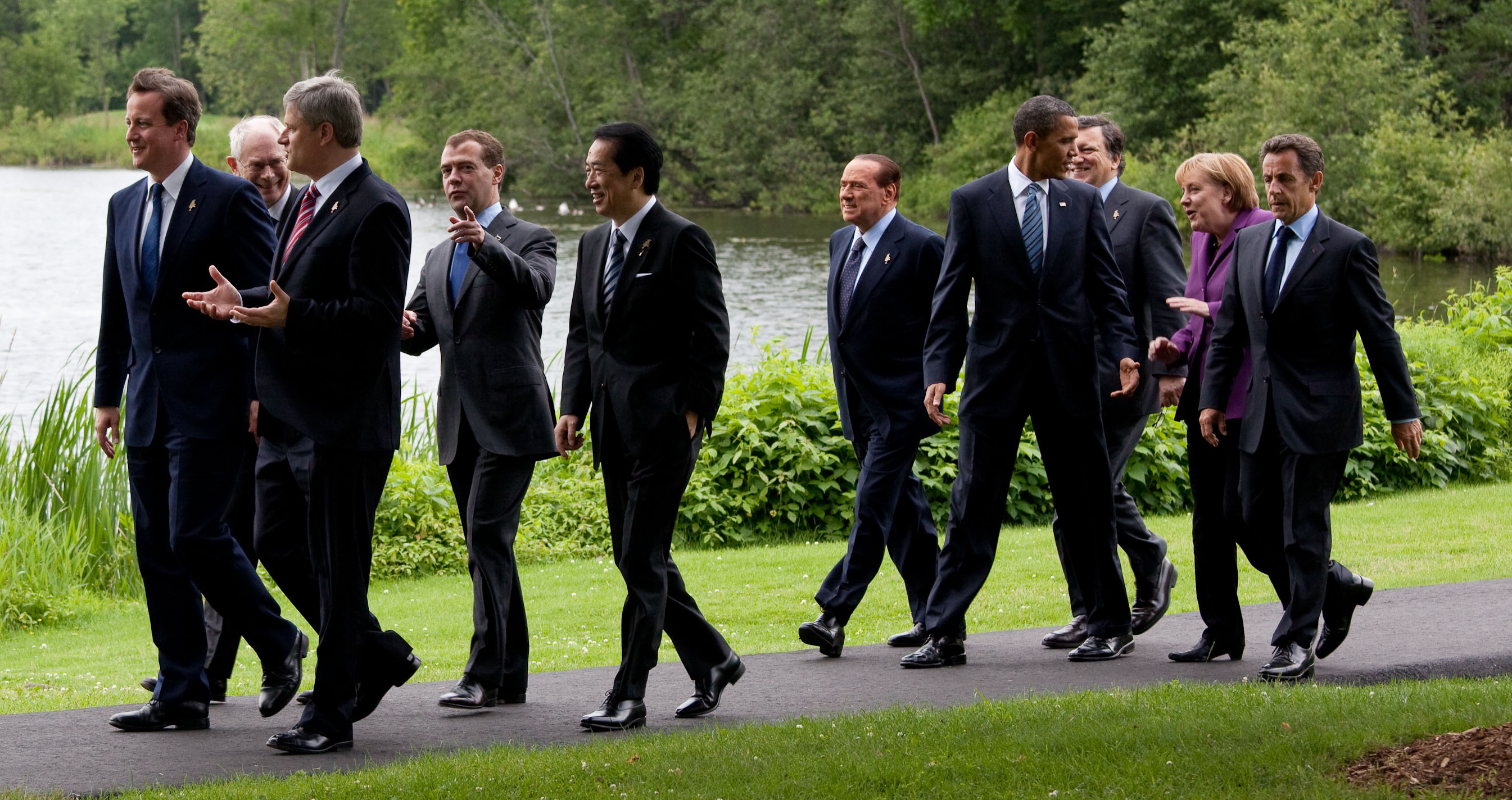 David Cameron, Prime Minister, Herman Van Rompuy, President of the European Council, Stephen Harper, Prime Minister, Dmitry Medvedev, President, Naoto Kan, Prime Minister, Silvio Berlusconi, Prime Minister, Barack Obama, President, José Manuel Barroso, President of the European Commission, Angela Merkel, Chancellor, and Nicolas Sarkozy, President, walked at the 36th G8 summit in Muskoka District Municipality, Ontario Province on June 25, 2010.